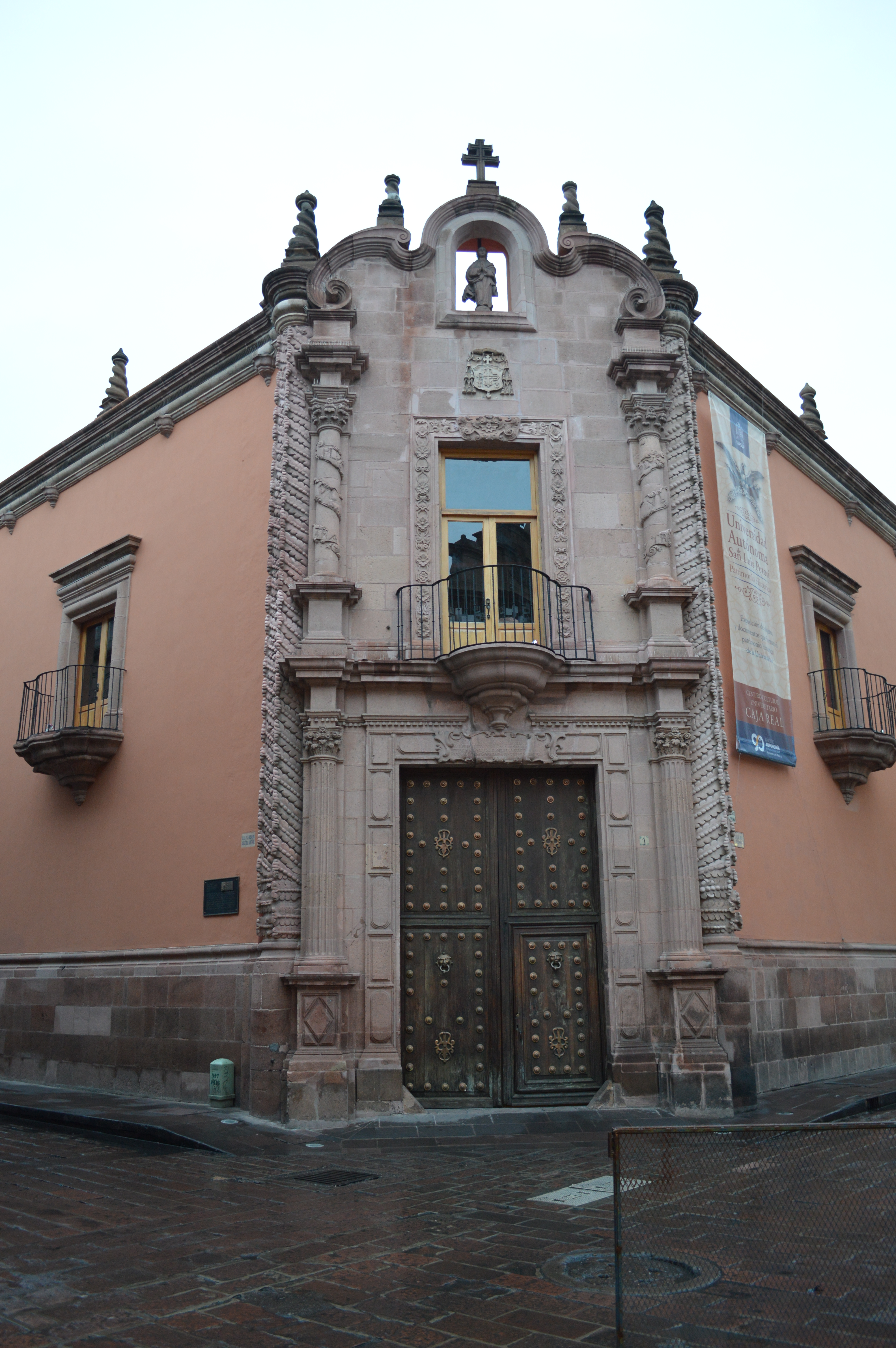 Real Caja or royal treasury in San Luis Potosi, Mexico